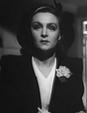 Elena Kuzmina as Jessie in Russian Question (1947)